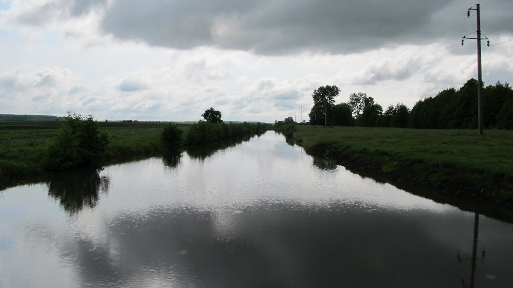 River near Prykordonna Ulashanivka